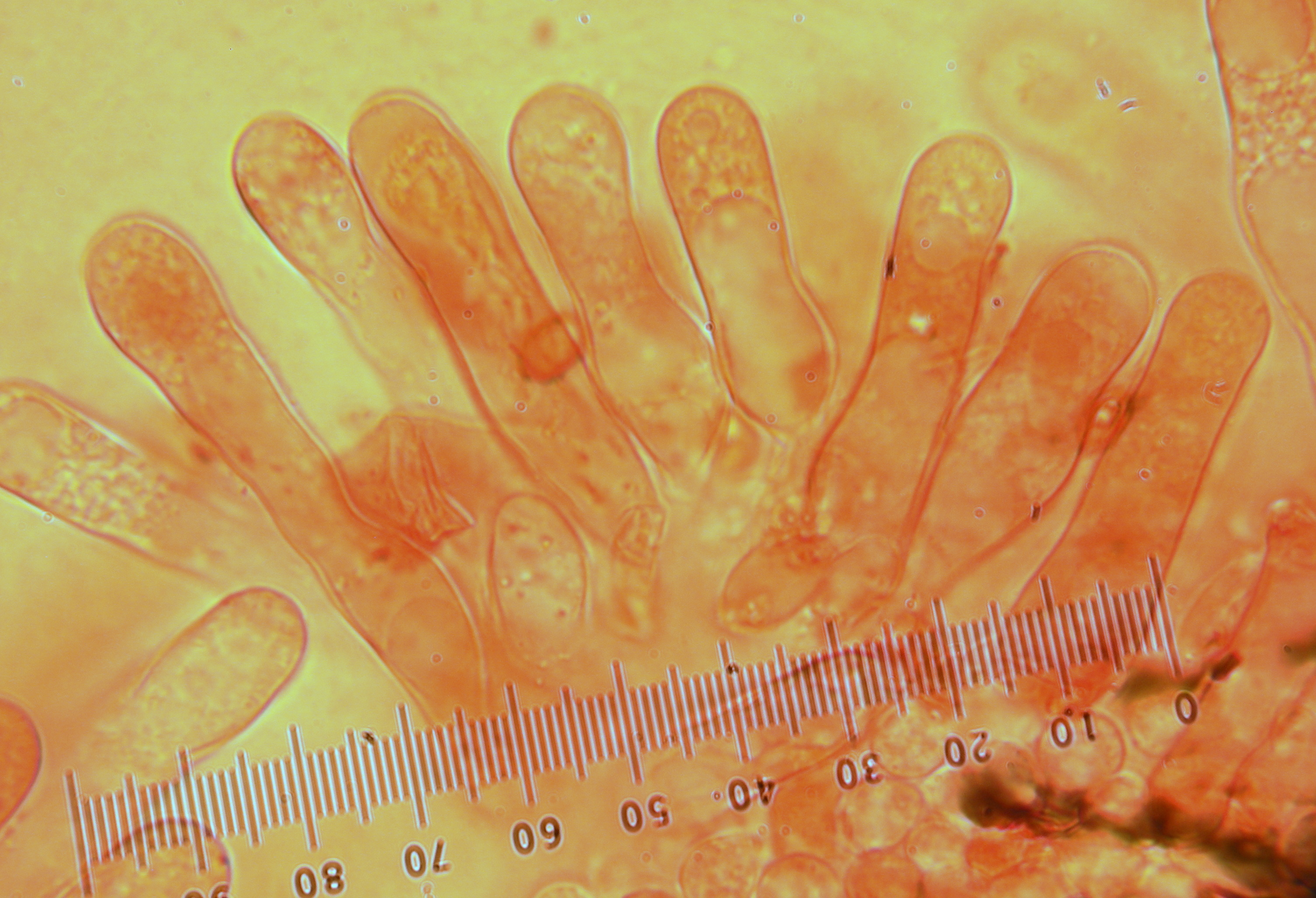 Psathyrella candolleana (Fr.) Maire Image location: Cameron Park, El Dorado Co., California, USA Growing on rocky ground near path, probably on buried woody debris. Spore print purplish brown and spores ~ 7.0-9.0 X 3.5-5.0 microns, smooth with a germ pore, which was not prominent. Abundant Cheilocystia, mostly narrowly utriform in the range of 35-50 X 10-13 microns. Did Not see Pleurocystidia. The safest ID here would be Psathyrella condolleana. However, the cap discs on these were more reddish than usual(and retained that color) so I’m donning a splitters cap for this one time without a lot of conviction. Recognized by sight Cheilocystidia @ 1000X. For more information about this, see the observation page at Mushroom Observer.